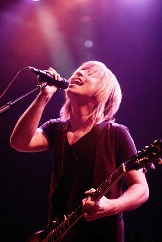 Steven Bryce Avary, Alternative Press Tour